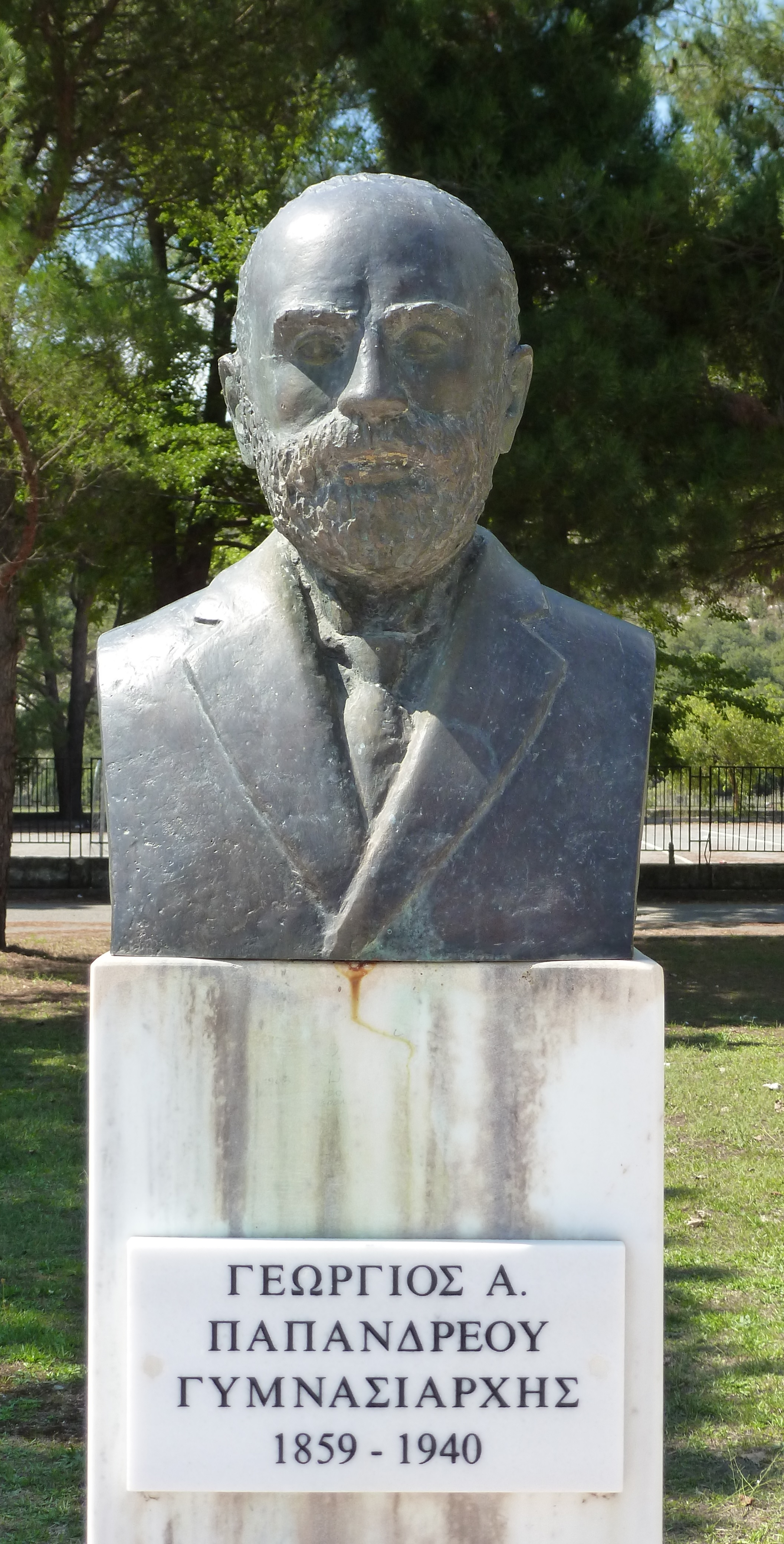 Bust of George A. Panandreou, Greek historian and linguist, located in the square of the new village of Paos, Achaia, Greece.